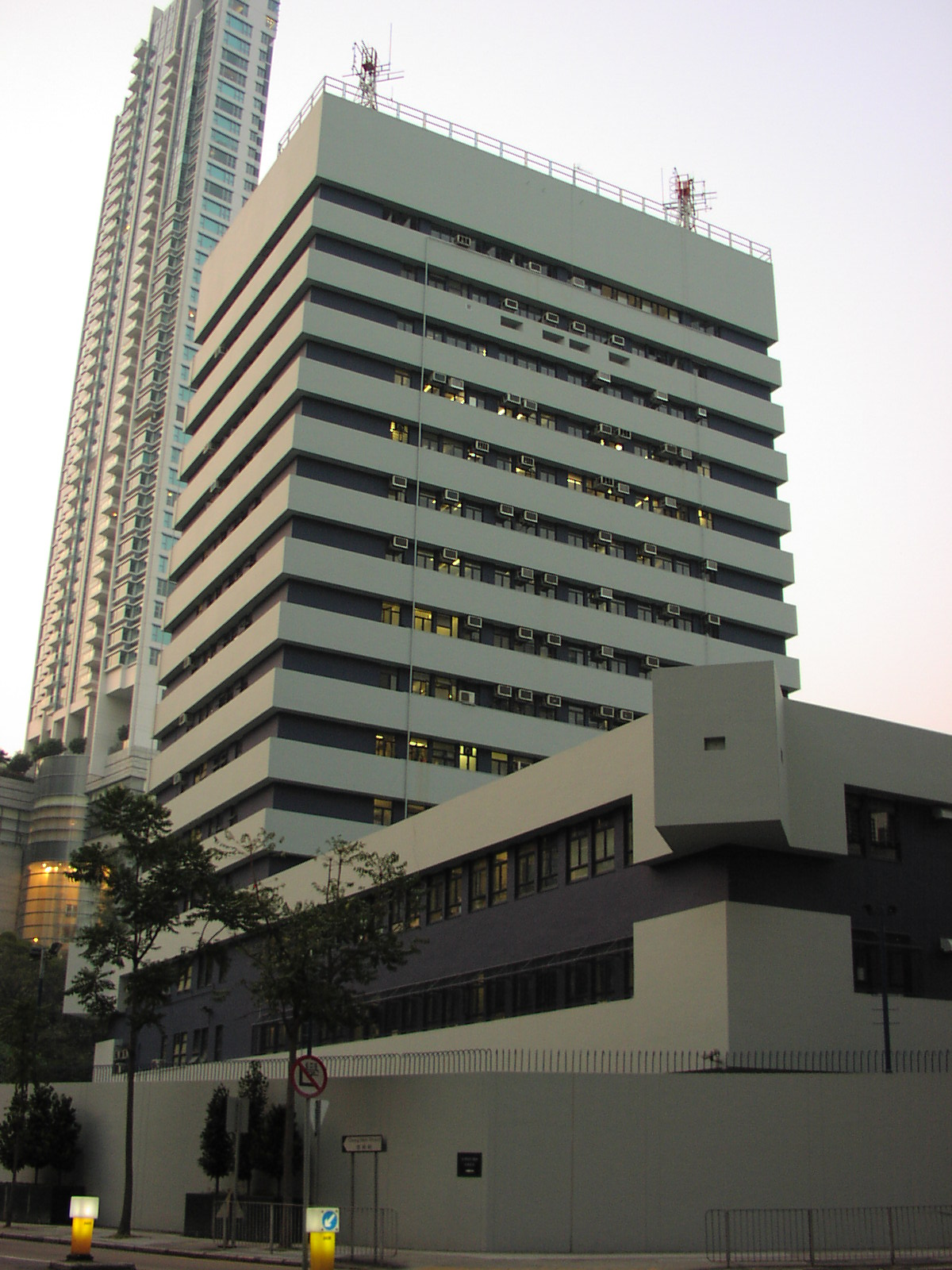 Hung Hom Police Station (previously known as Ho Man Tin Police Station)